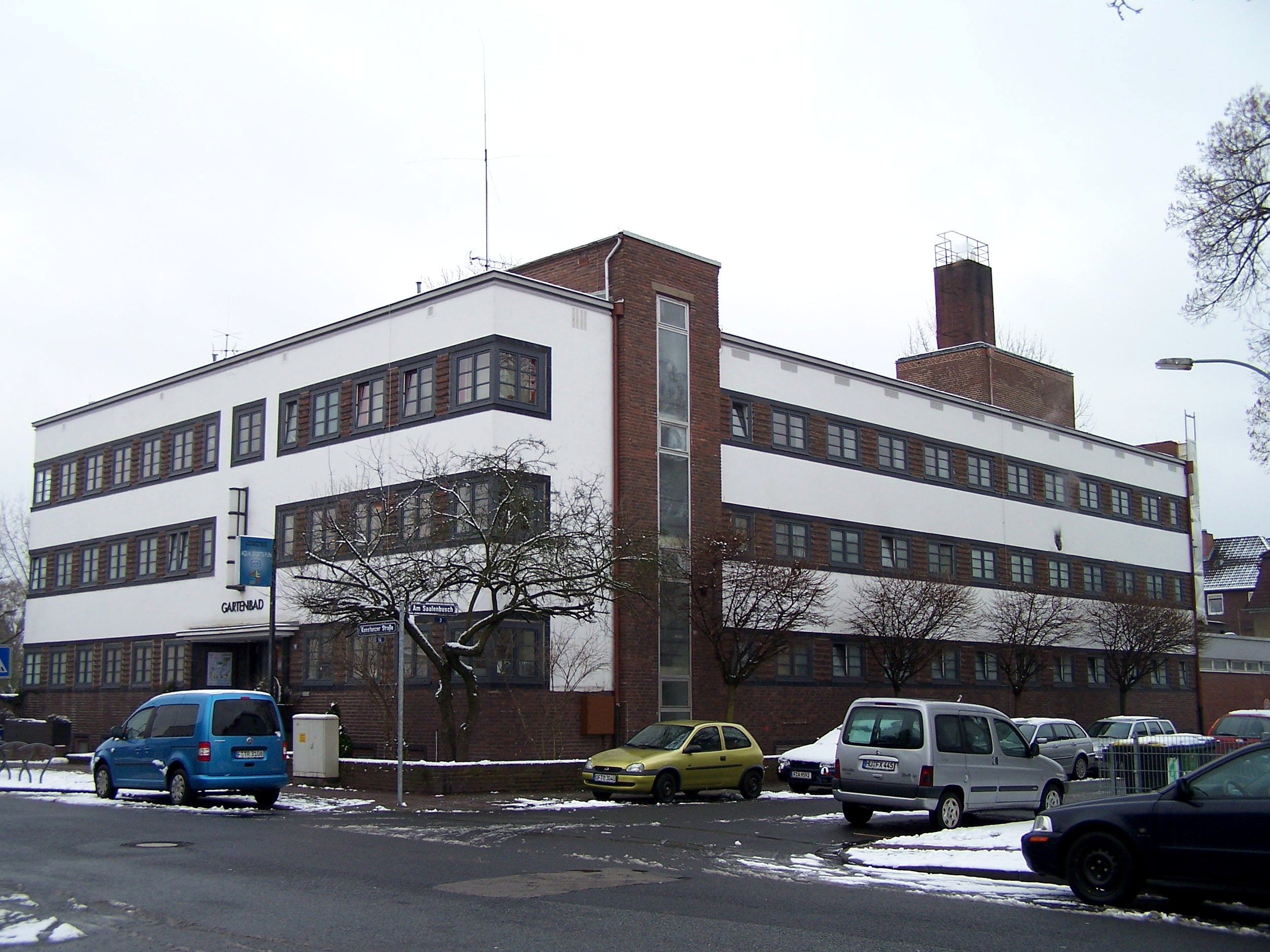 Garden indoor swimming pool Fechenheim of the Turngemeinde Bornheim in Frankfurt am Main-Fechenheim, designed by Martin Elsaesser, seen from northeast